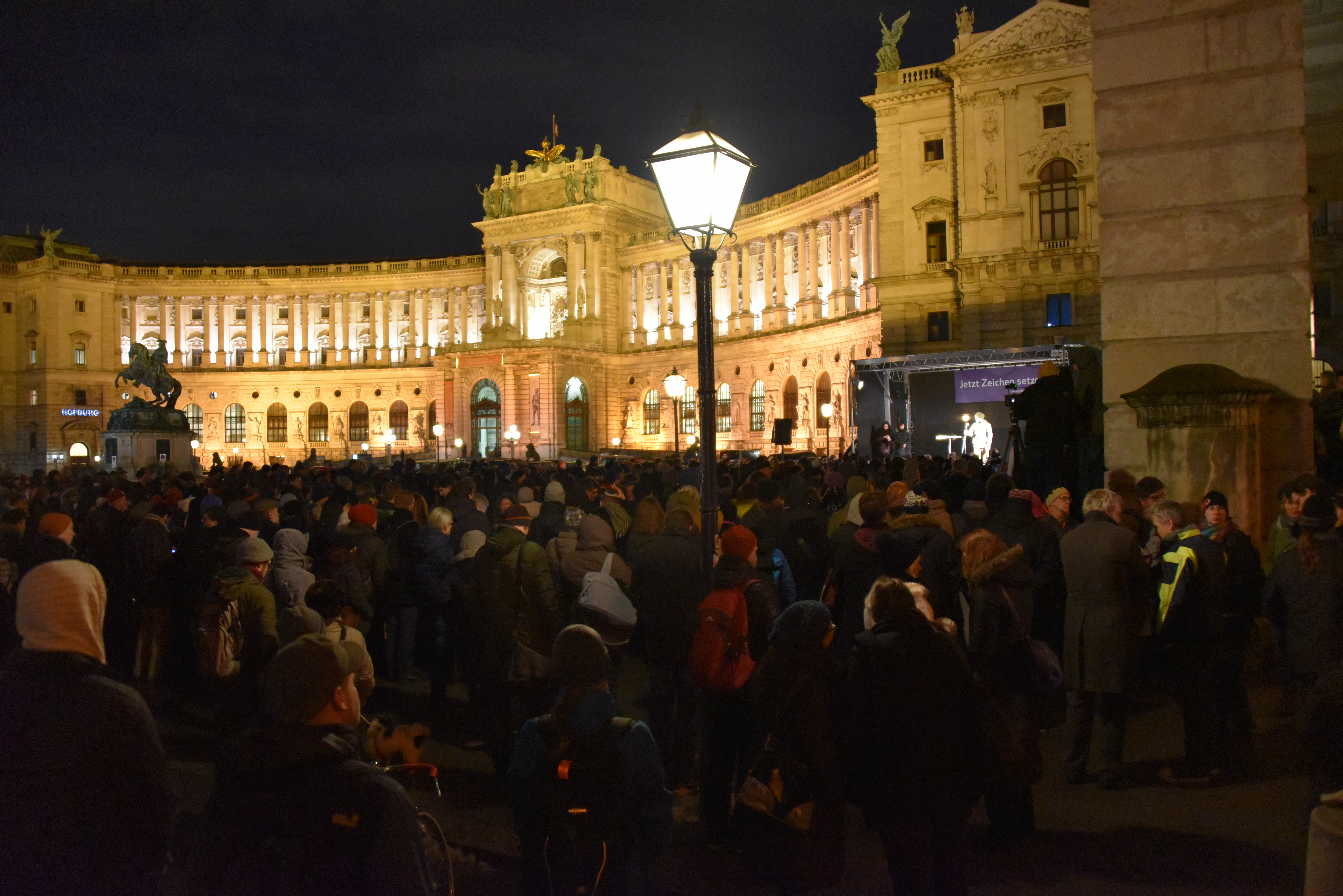 International Holocaust Remembrance Day 2015, manifestation of Jetzt Zeichen setzen!" at the Heldenplatz in Vienna